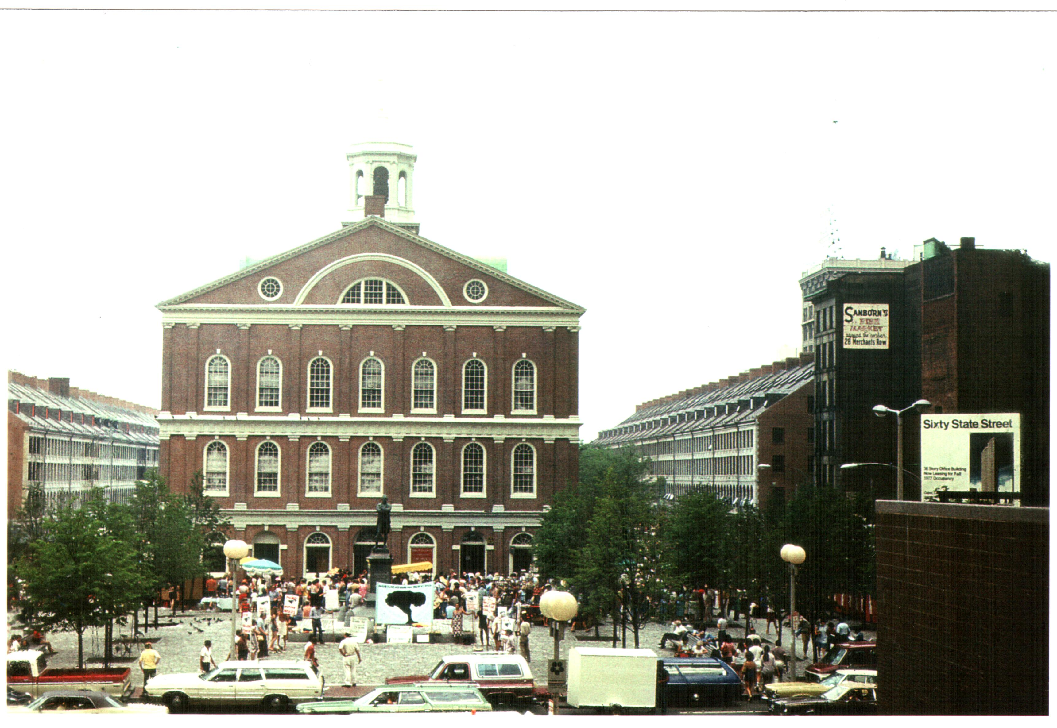 Anti-nuclear Protest, Boston, USA. 1977. From the 23rd of July, 1977. Megjelent Creative Commons alatt a Metapolisz DVD sorozatban.